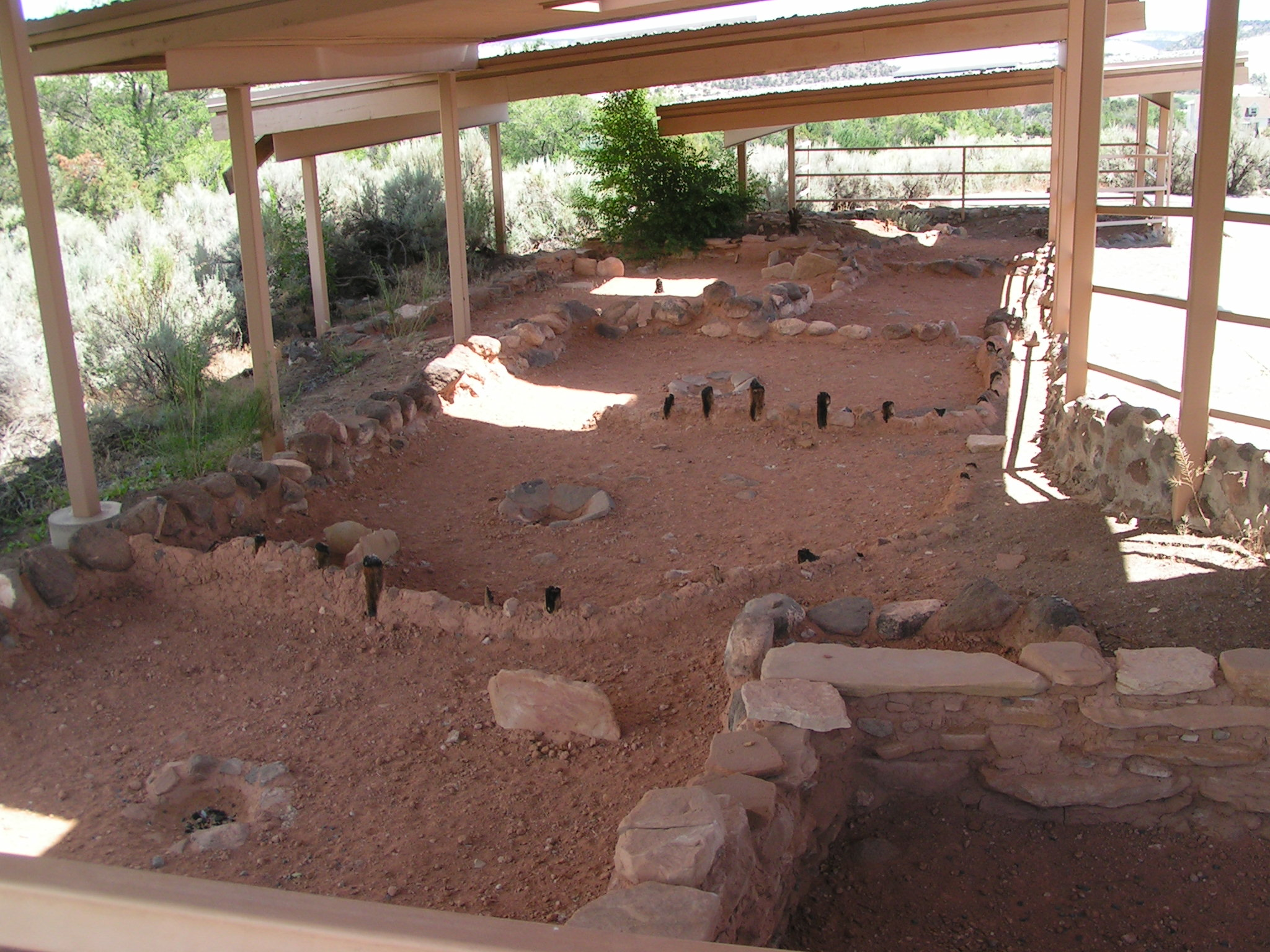 Ruins discovered at the Anasazi Indian State Park in Utah.